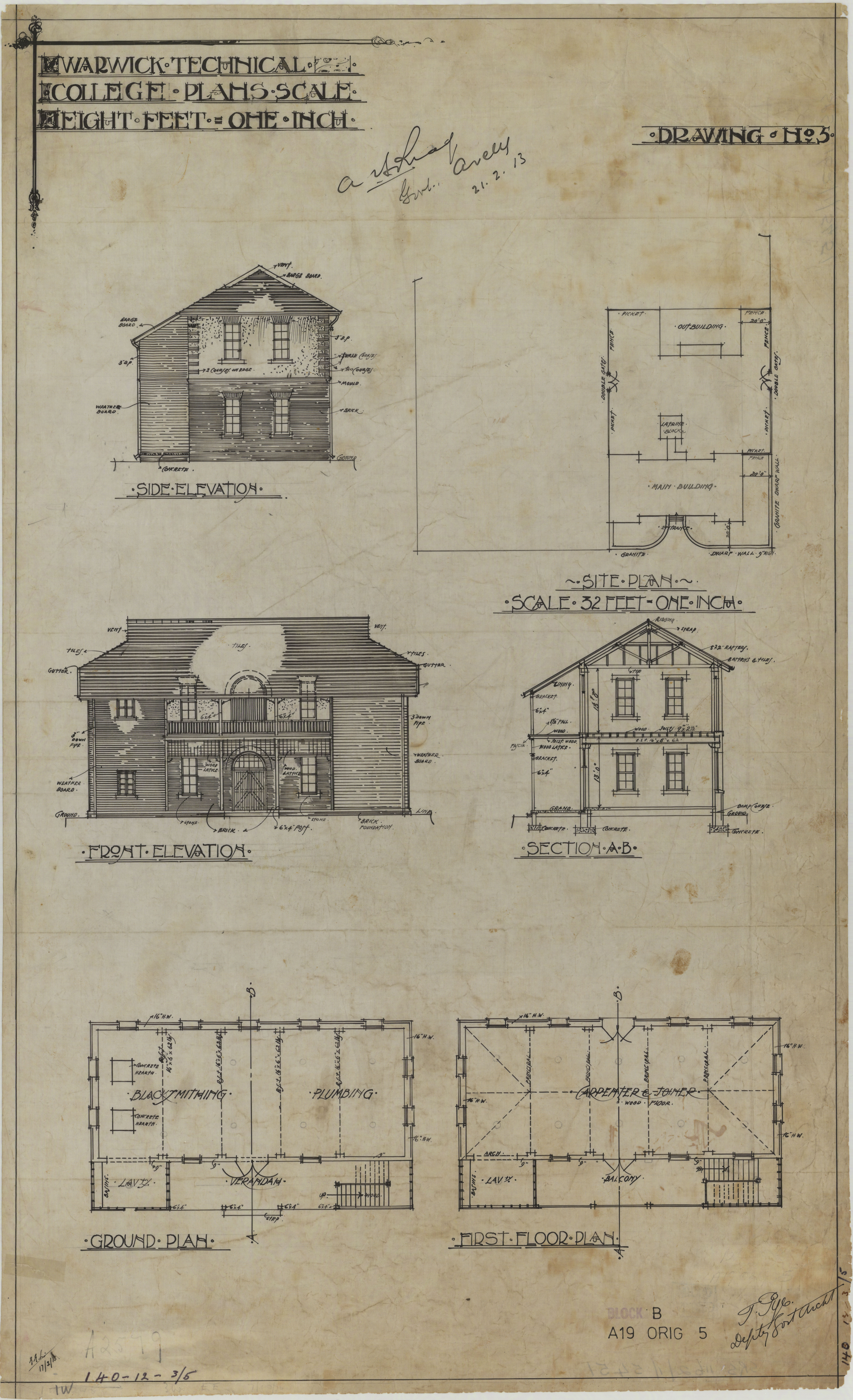 Warwick Technical College, 21 February 1913